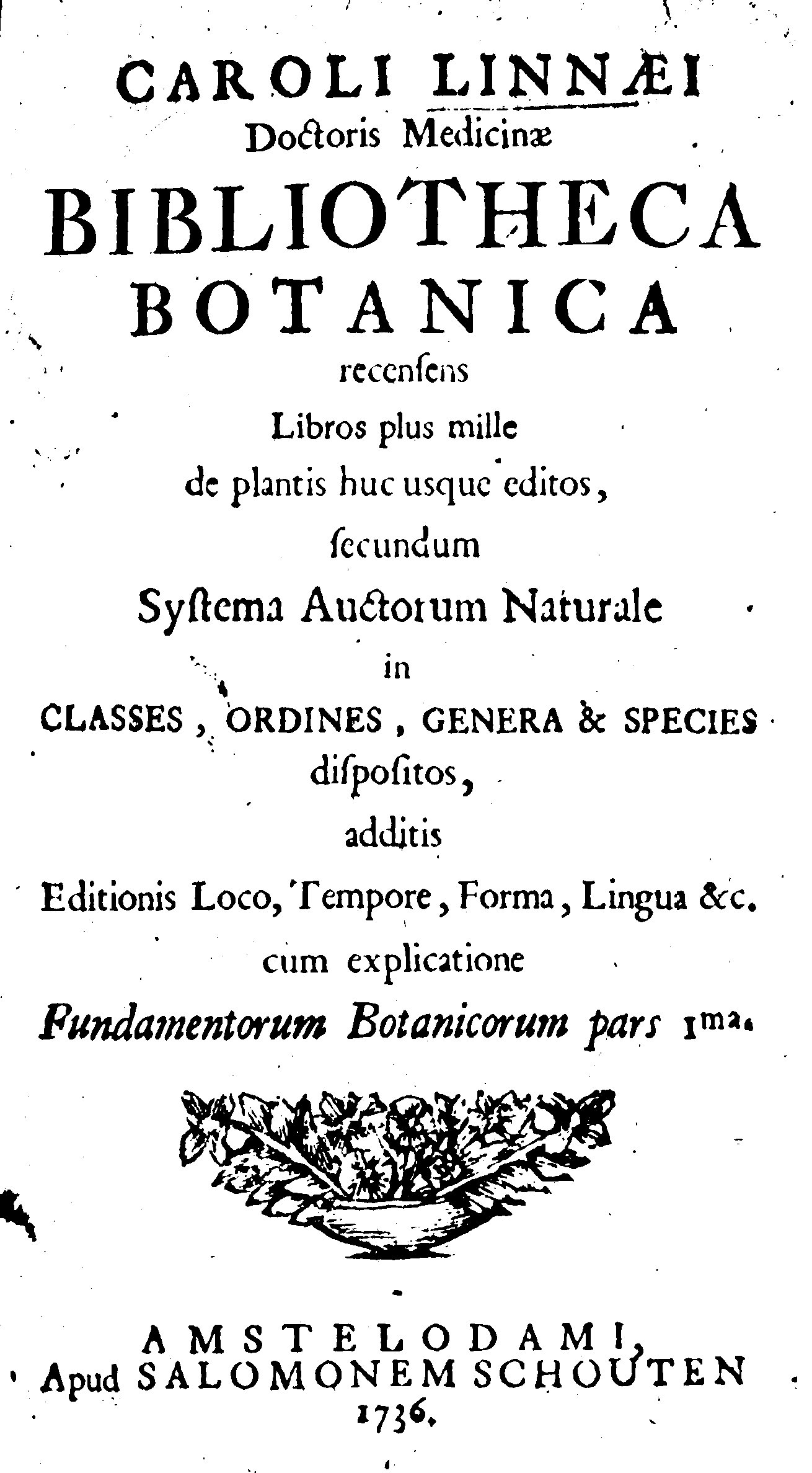 Titelblatt von Carl von Linnés Bibliotheca Botanica, 1. Auflage, 1736